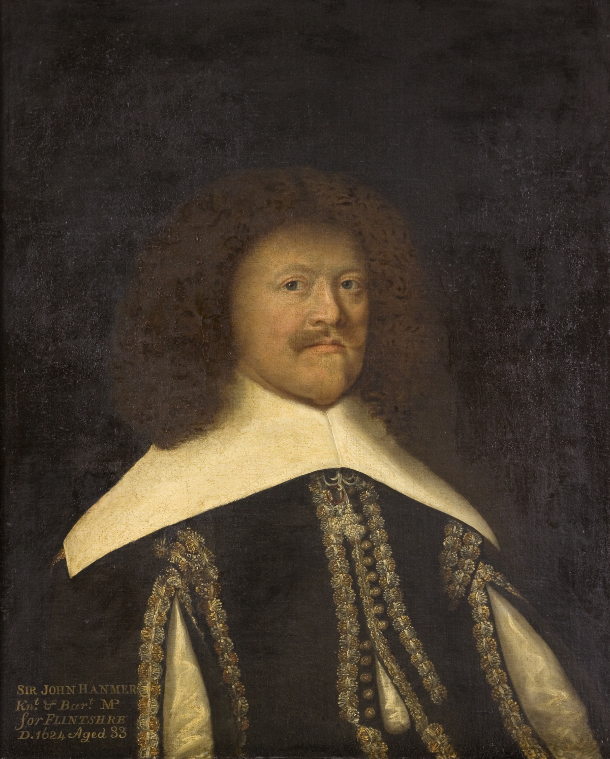 A 78 x 64 cm oil-on-canvas portrait painting of John Hanmer by Cornelis Janssens van Ceulen held at National Museum Cardiff